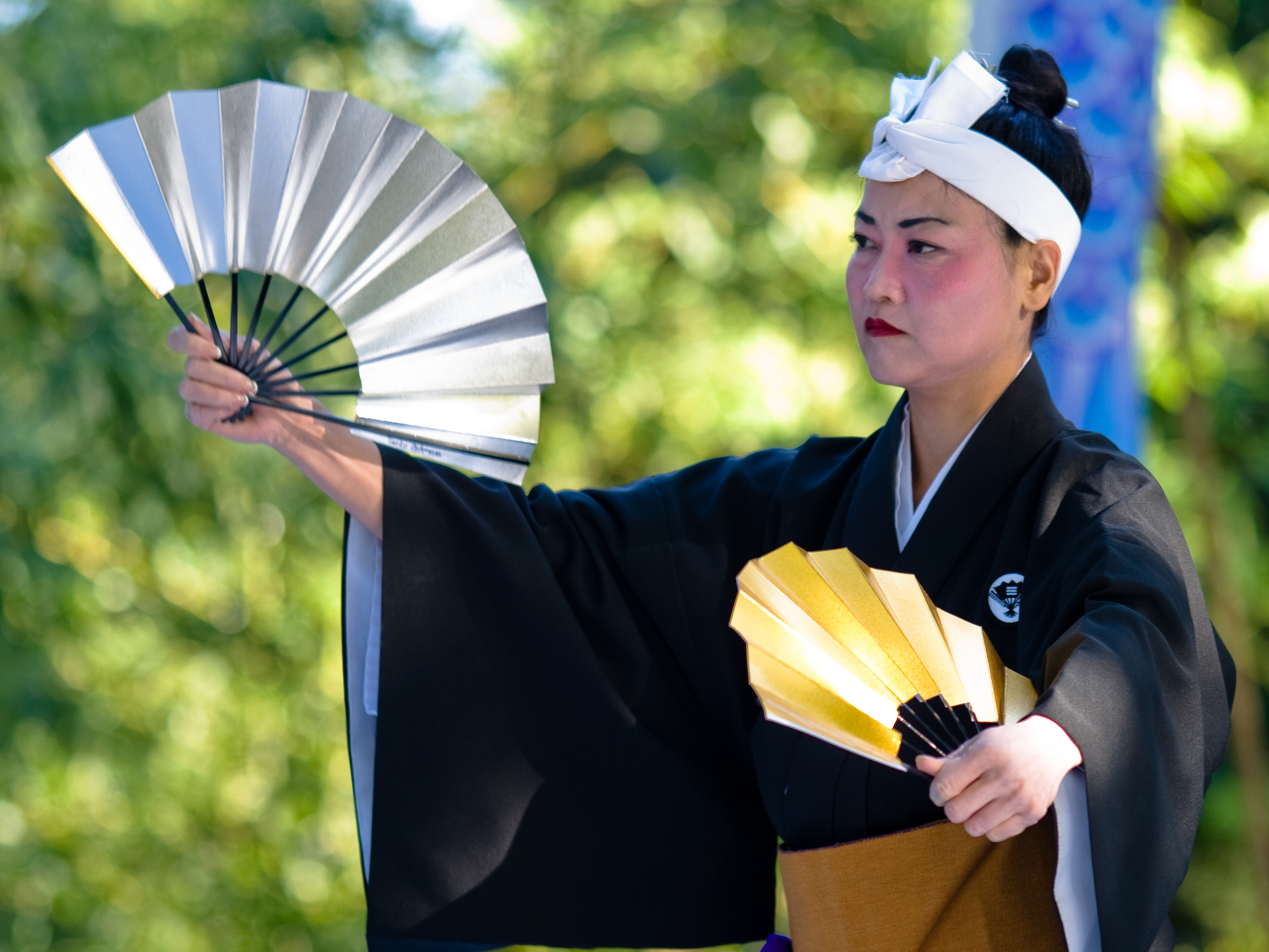 Miyagi No Sho Kai Okinawan Dancer